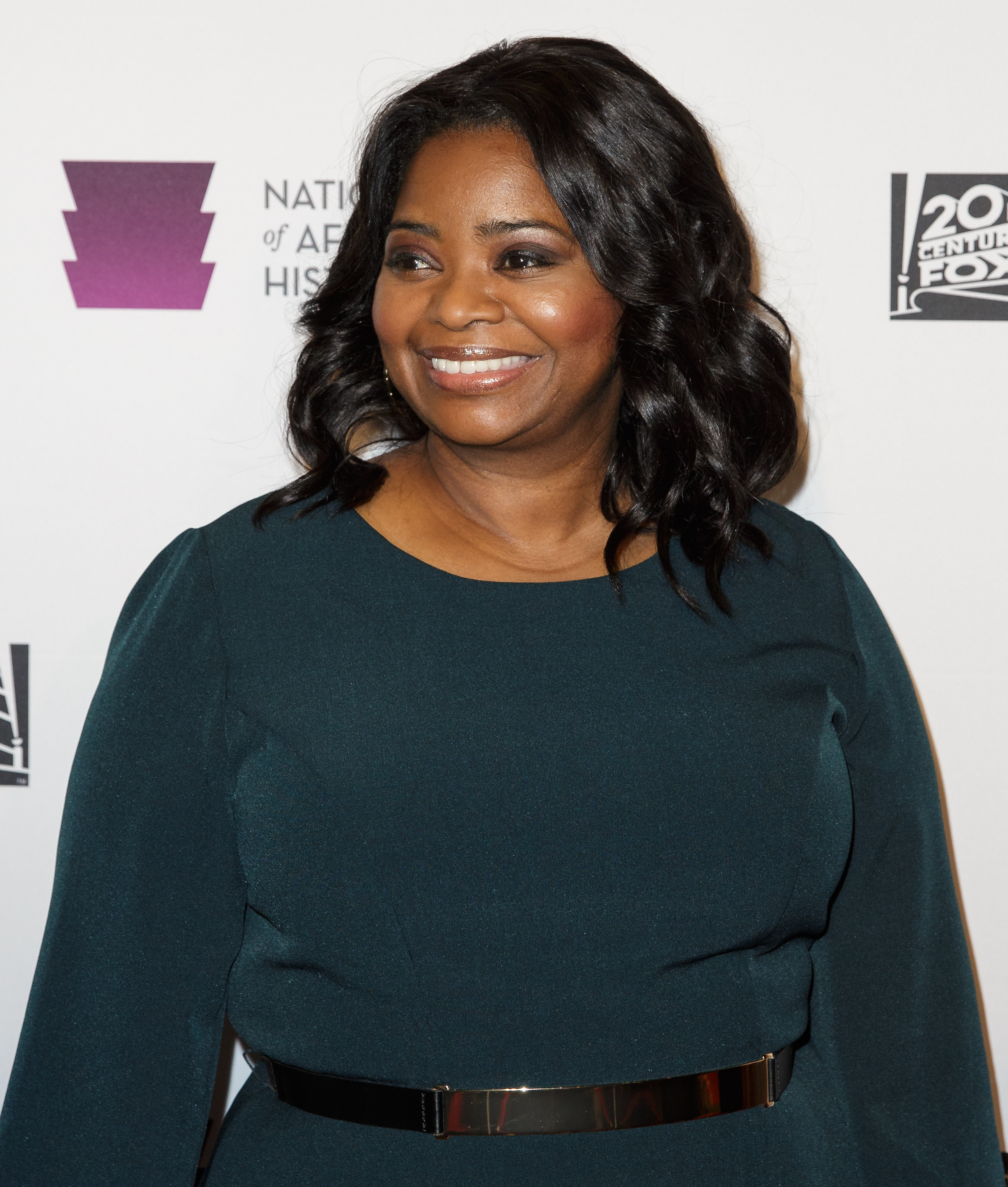 American actress Octavia Spencer arrives on the red carpet for a screening of the film “Hidden Figures” at the Smithsonian’s National Museum of African American History and Culture, Wednesday, Dec. 14, 2016 in Washington DC. The film is based on the book of the same title, by Margot Lee Shetterly, and chronicles the lives of Katherine Johnson, Dorothy Vaughan and Mary Jackson -- African-American women working at NASA as “human computers,” who were critical to the success of John Glenn’s Friendship 7 mission in 1962.